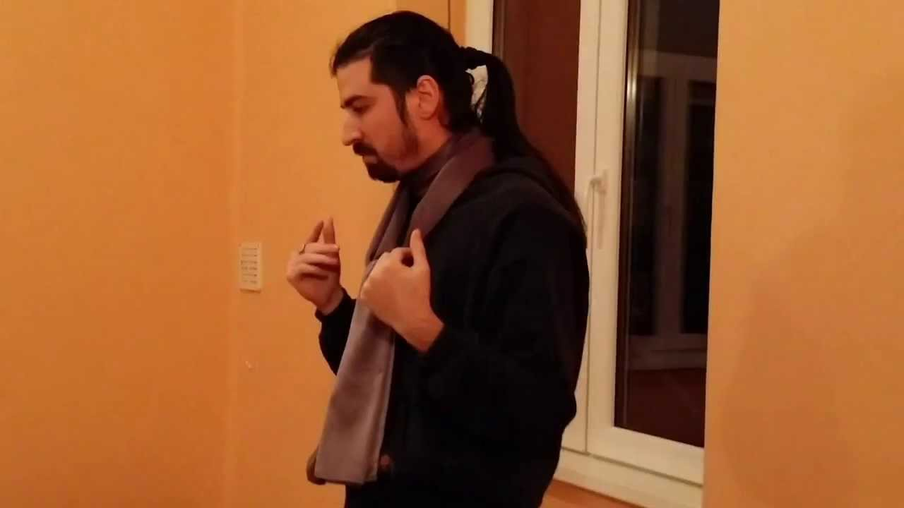 Lecture about water